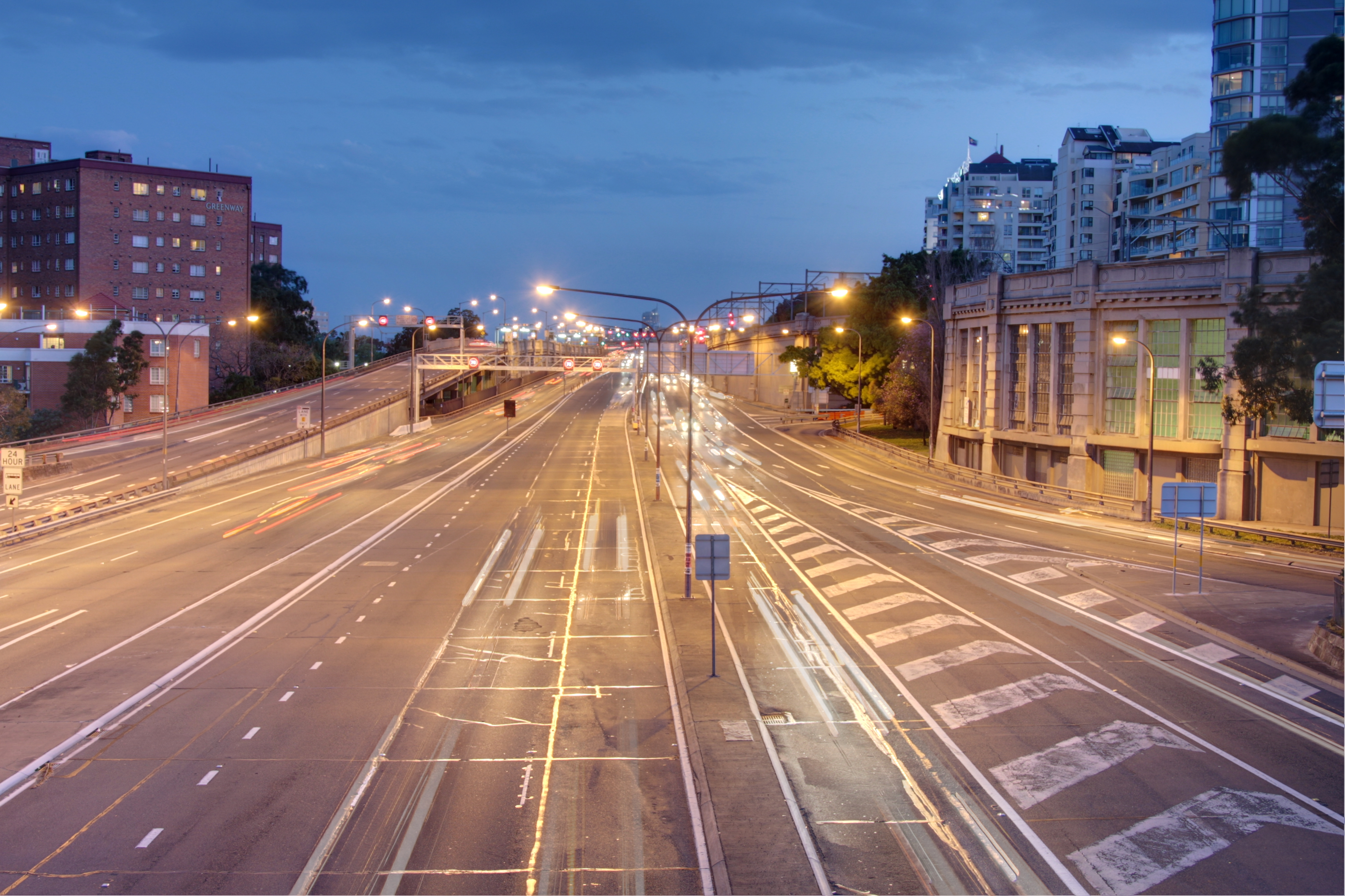 Bradfield Highway leading up to the Sydney Harbour Bridge